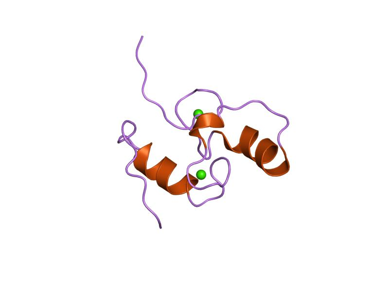 Cartoon representation of the molecular structure of protein registered with 1daq code.